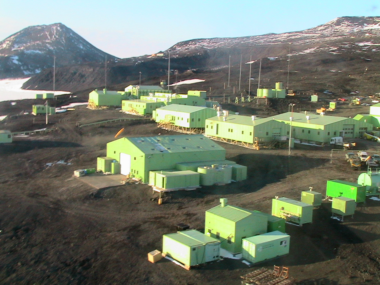 View of Scott Base, Antarctica from the air. Observation Hill in the background.